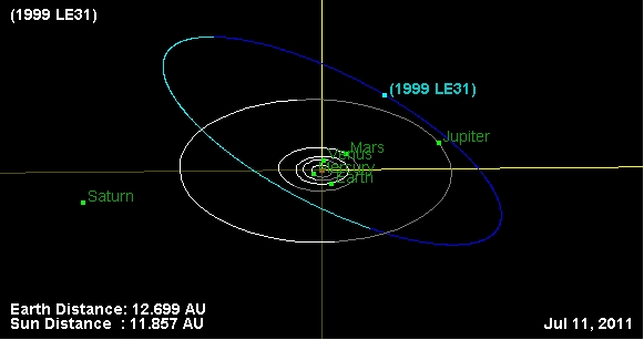 Orbit diagram of the asteroid 1999 LE31.